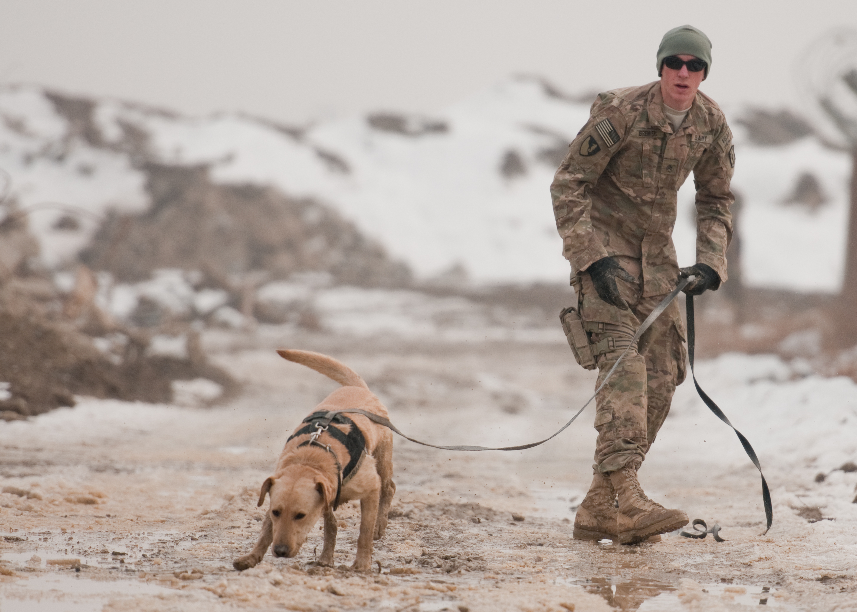 U.S. Army Sgt. Garrett Grenier, a dog handler, and U.S. Army Staff Sgt. Drake, a mine detection dog, conduct training at Bagram Air Field, Afghanistan, Jan. 8, 2013. Grenier and Drake are both members of the 49th Engineer Detachment (mine dogs), and train on a regular basis with real explosives in order to sharpen Drake's detection skills. (U.S. Army photo by Sgt. Christopher Bonebrake, 115th Mobile Public Affairs Detachment) Unit: 115th Mobile Public Affairs Detachment DVIDS Tags: Soldier; Kabul; Bagram Airfield; Kapisa; 115th MPAD; Combat; Engineers; MRAP; CENTCOM; Coalition Forces; Missouri; Forward Operating Base; FOB; Army Soldier; Kabul International Airport; Khowst; Bagram; handler; Field Artillery; Combat Engineers; Logar; Kunar; MP; Armor; Nuristan; Task Force Mountain Warrior; Paktika; Nangarhar; ISAF Joint Command; Lightning; Ranger; Gamberi; IJC; Shank; Fenty; BAF; Fort Leonard Wood; RC-East; 115th Mobile Public Affairs Detachment; First Infantry Division; 1ID; Laghman; Sharana; Afghanistan; Provincial Reconstruction Team; Canine; Ghazni; ANP; Oregon Army National Guard; Parwan; ANSF; Infantry; Phoenix; Fort Riley; Regional Command East; IED; Afghan National Army; Airborne; International Security Assistance Force; Afghan National Security Forces; K9; Army; ISAF; Afghan National Police; Artillery; ANA; National Guard; Army National Guard; Military Police; 1st Infantry Division; PRT; War on Terror; Operation Enduring Freedom; Kansas; Paktiya; Task Force Dragon; Bamyan; Afghan Soldier; Task Force Defender; Mine-Detection; Mine Dog; CJTF-1; Panjshayr; war photo; Mine Resistant Ambush Protective Vehicle; Wardok; Task Force Sky Soldiers; 49th Engineer Detachment